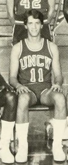 John Calipari was on the 1979-1980 University of North Carolina, Wilmington basketball team.